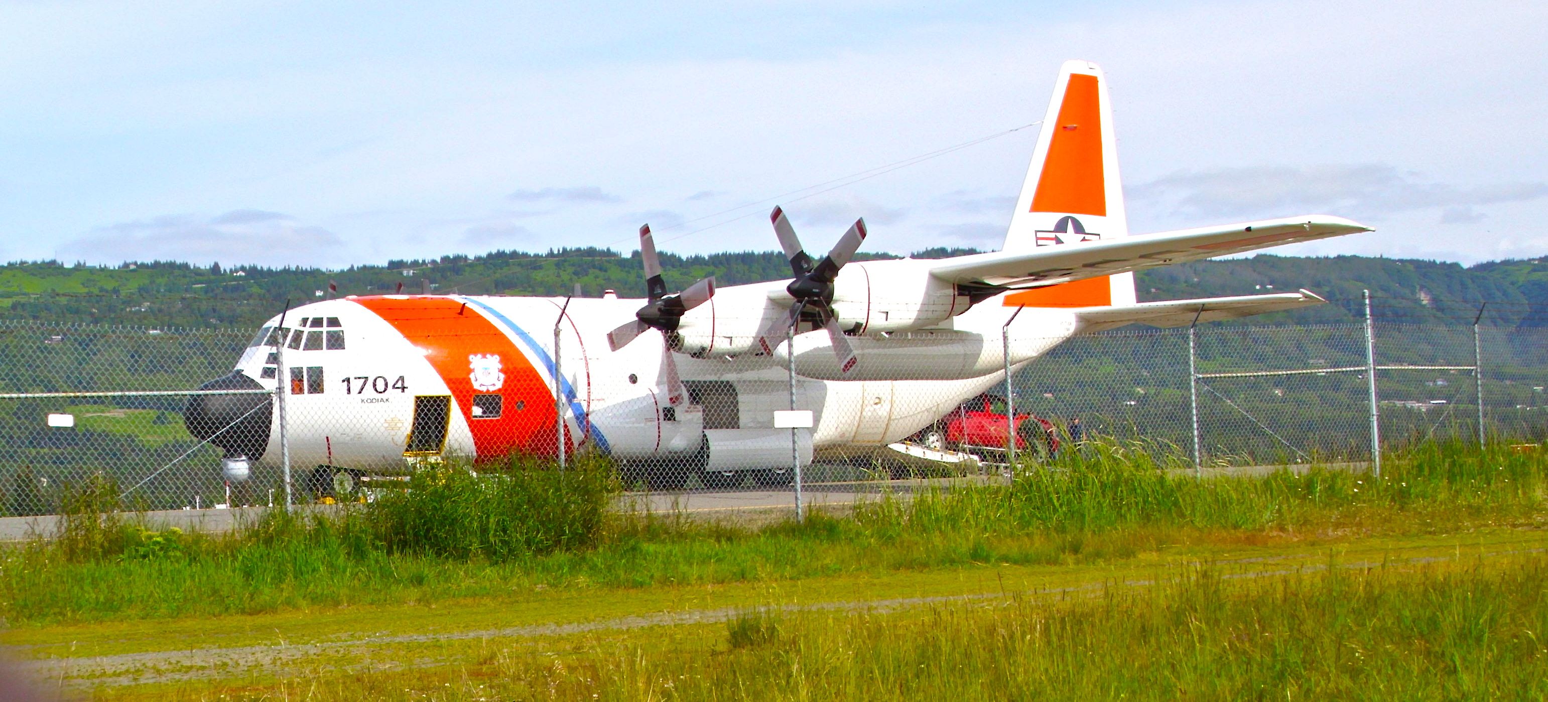 U.S. Coast Guard Lockheed HC-130 offloading an SUV, Homer Airport, Alaska